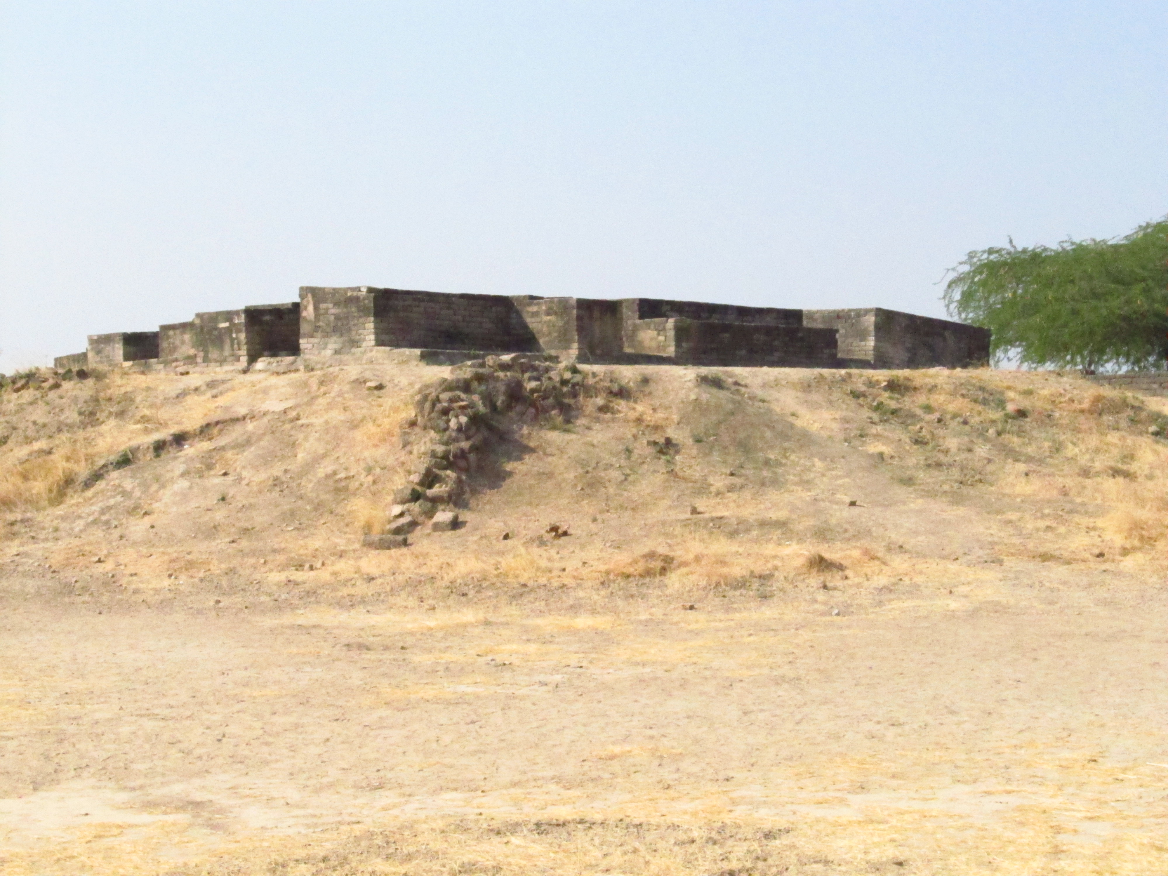 Ancient site at Lothal